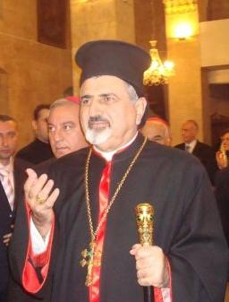 Ignatius Joseph III Younan visiting Aleppo-Syria